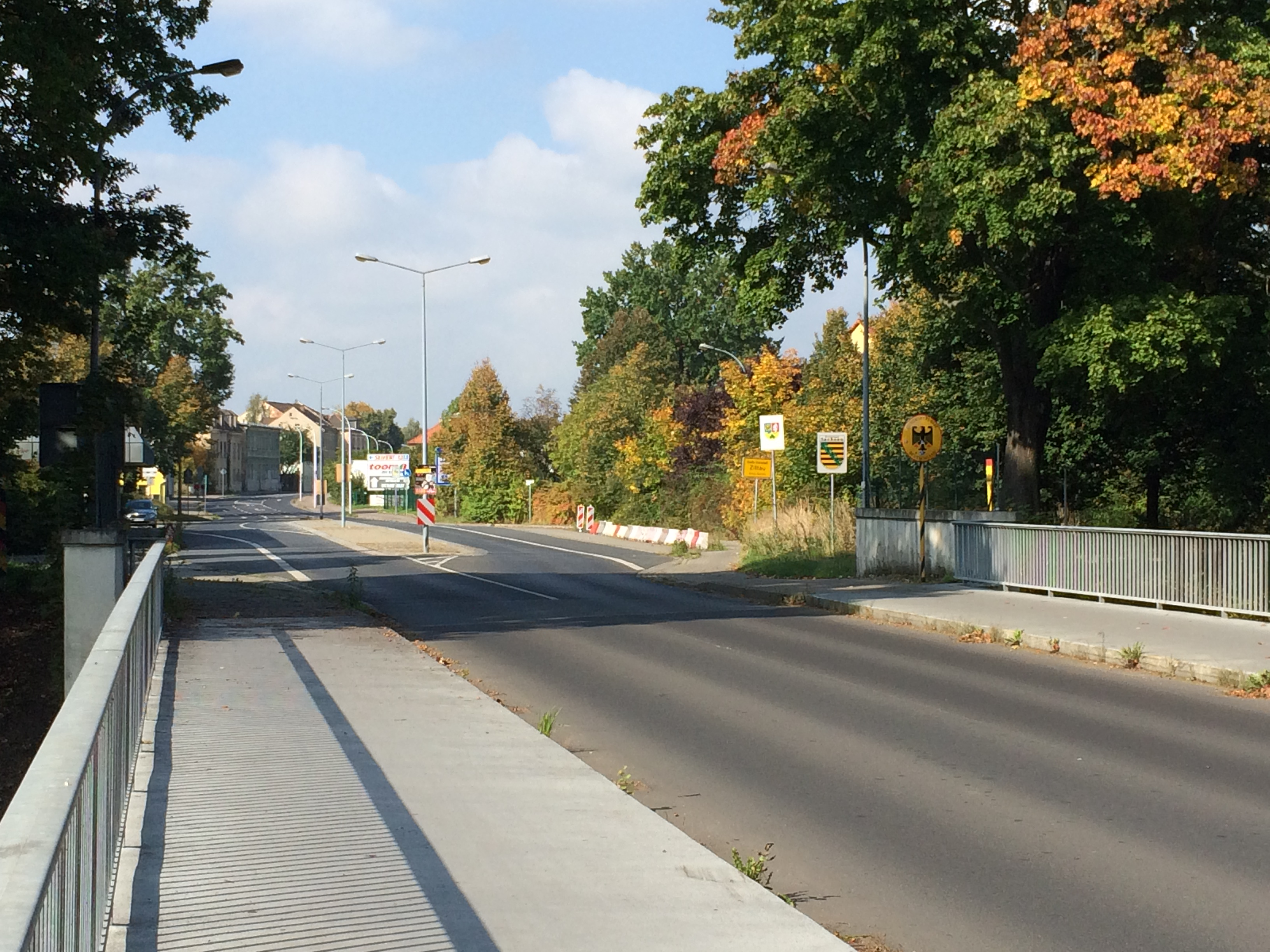 View from Poland towards Germany, taken on border bridge over river Neisse / Nysa